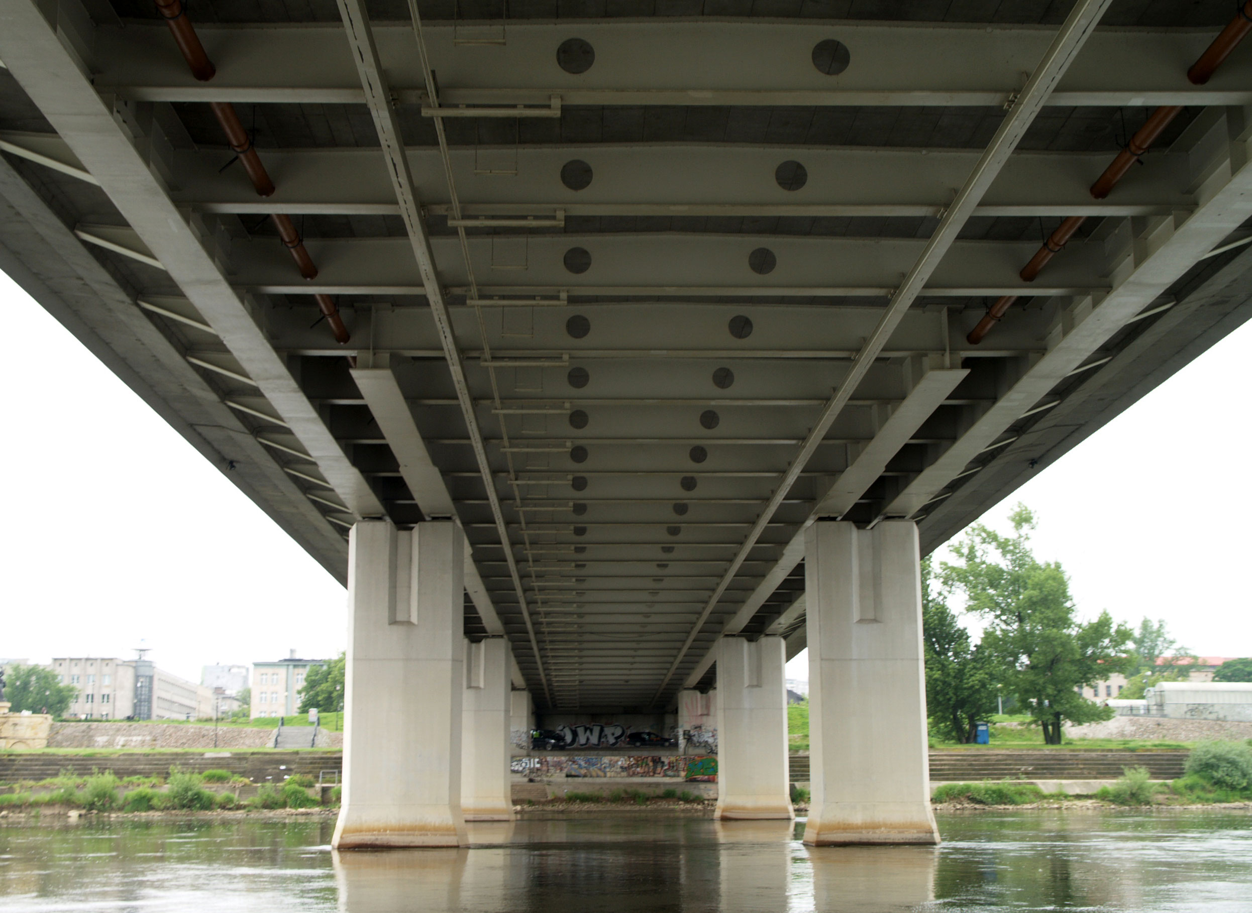 Holy Cross Bridge in Warsaw, Poland